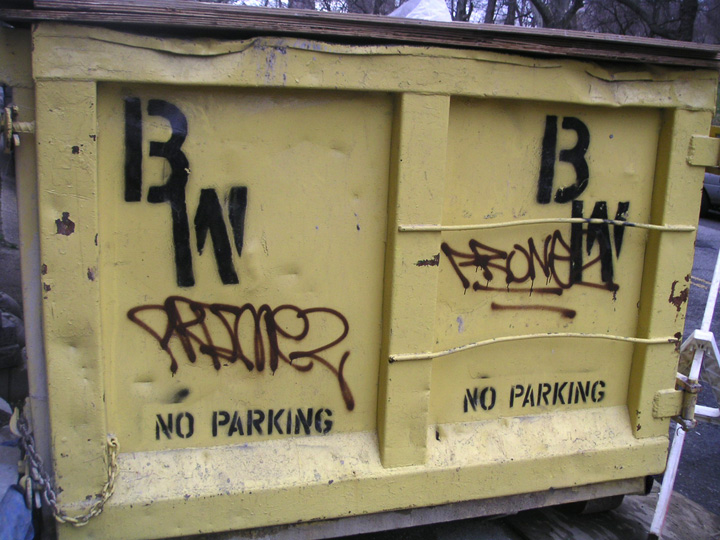 I made it, its yours. Dumpster with spray paint stencils and graffiti tags. New York City, 2007.